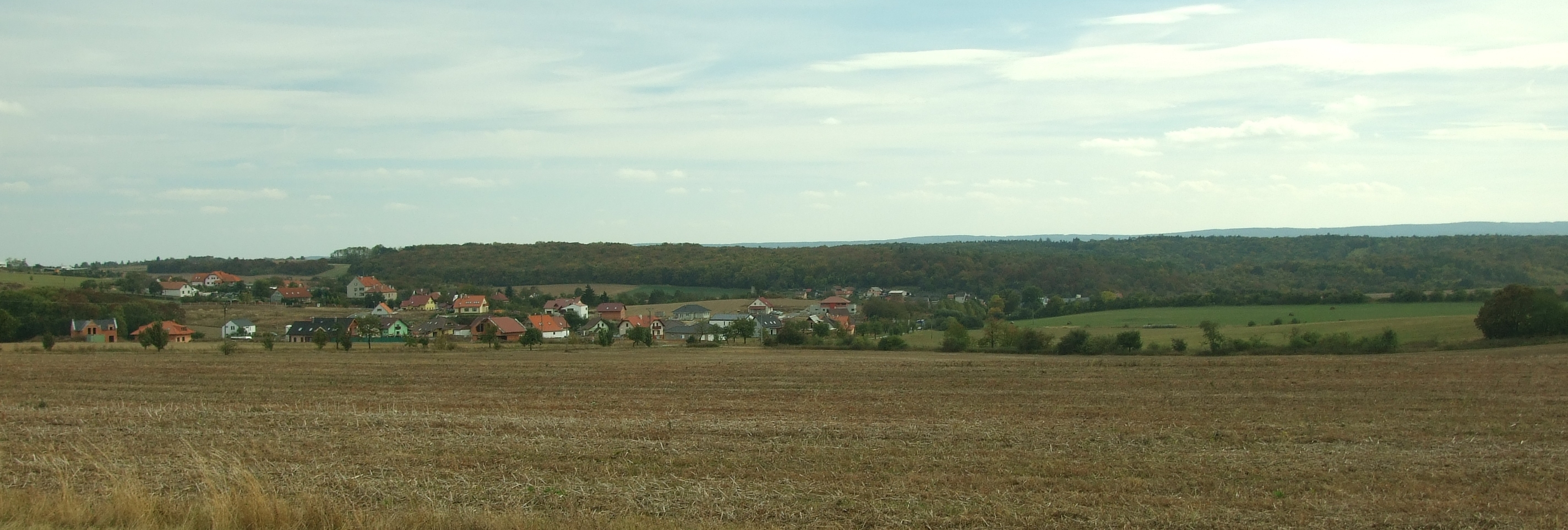 Bubovice village seen from north, Central Bohemian Region, CZhelp